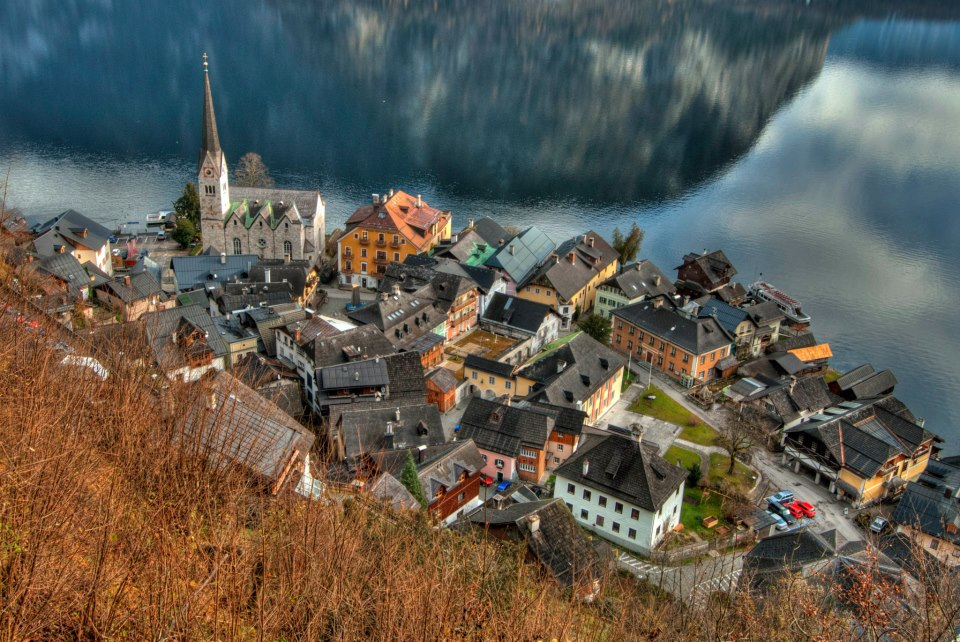 Hallstatt bird view